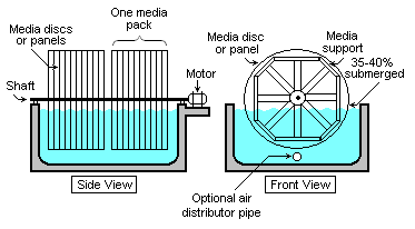 This is a schematic diagram of a rotating biological contactor (RBC) for treating wastewaters. The effluent clarifier/settler is not included in the diagram.